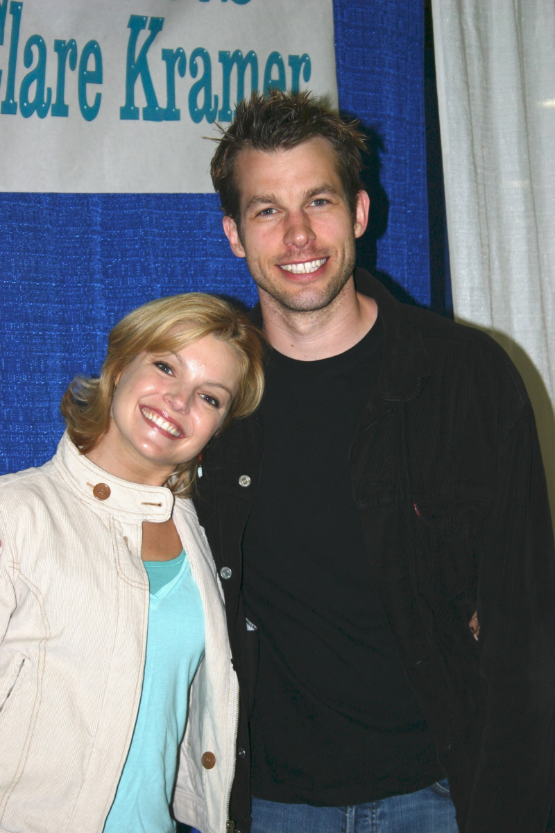 At the Pittsburg Comic con April 2005.